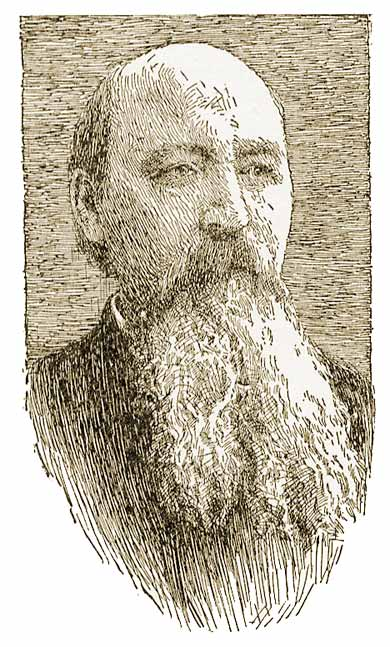 Max-Emmanuel Mandelstam, zionist leader